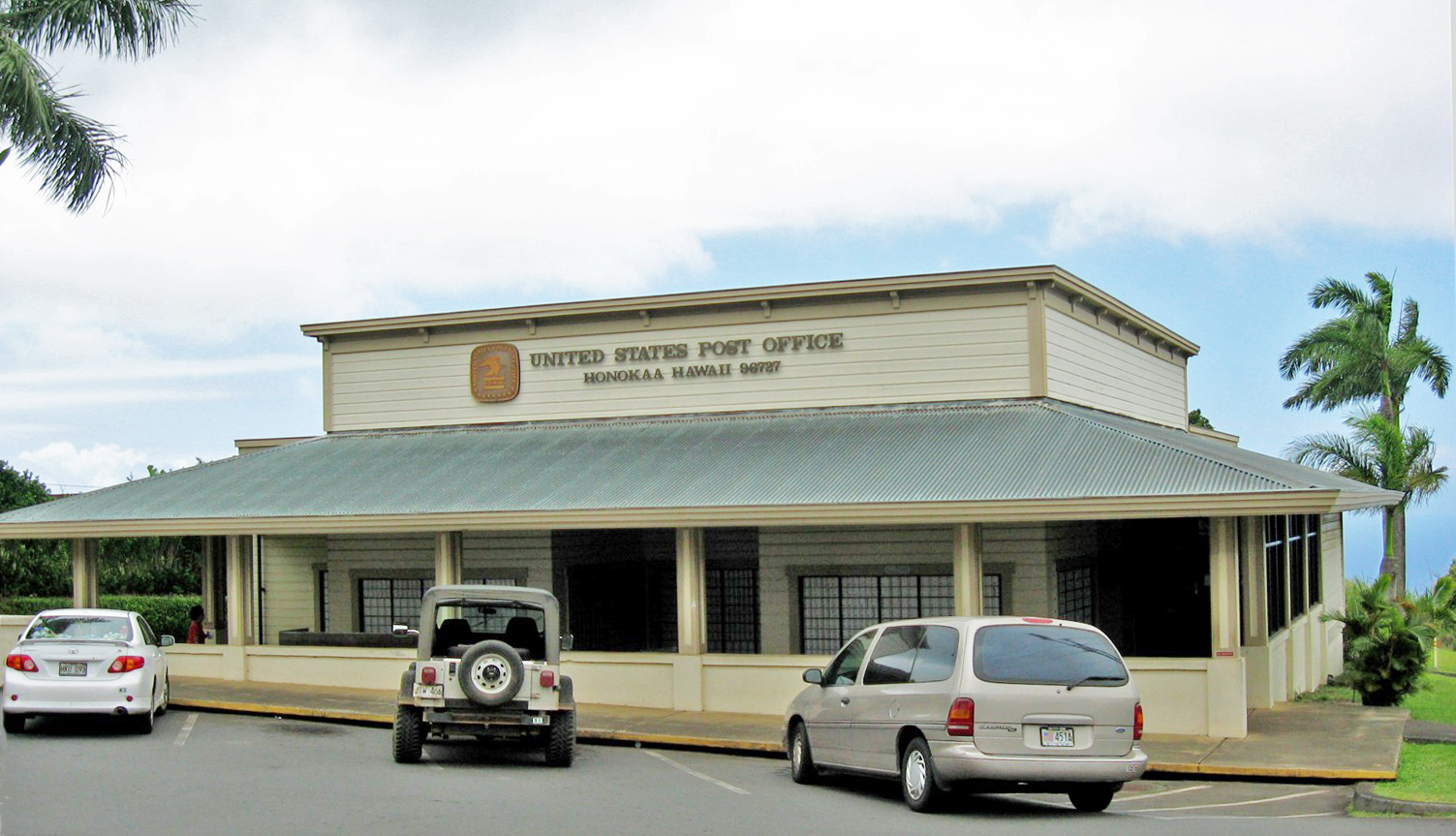 U.S. Post Office in Honoka'a, Big island of Hawaiʻi.